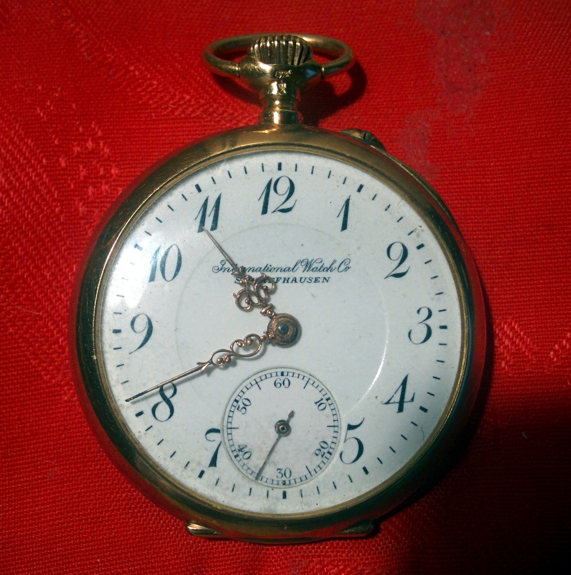 This picture is of an early 20th century IWC fob watch